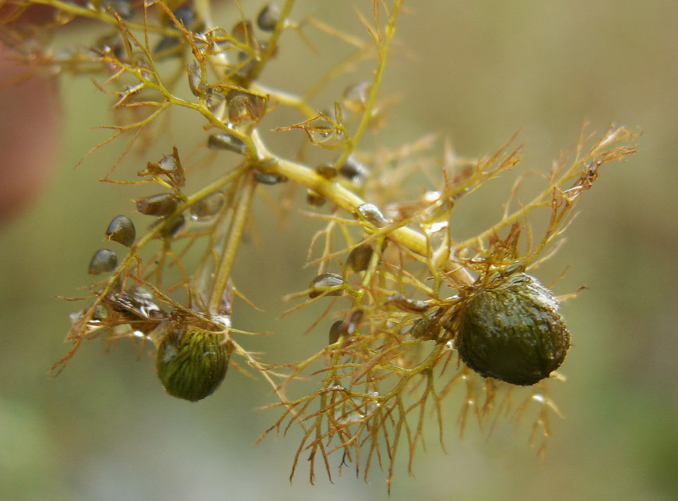 Turions of Utricularia vulgaris. Small pond near Swinoujscie, NW Poland.